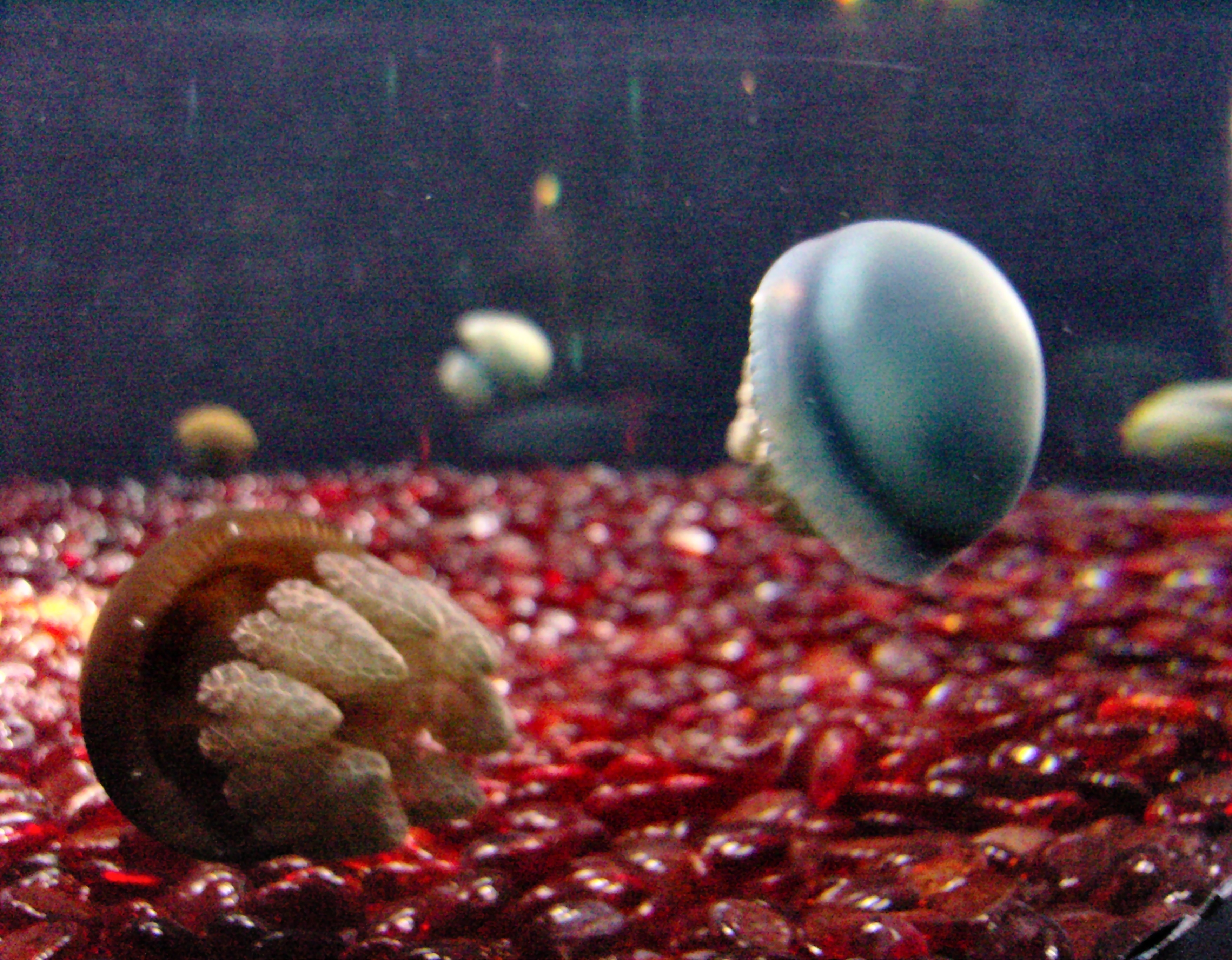 Blubber Jellyfish (Catostylus mosaicus, order Rhizostomae), Monterey Bay Aquarium, California.